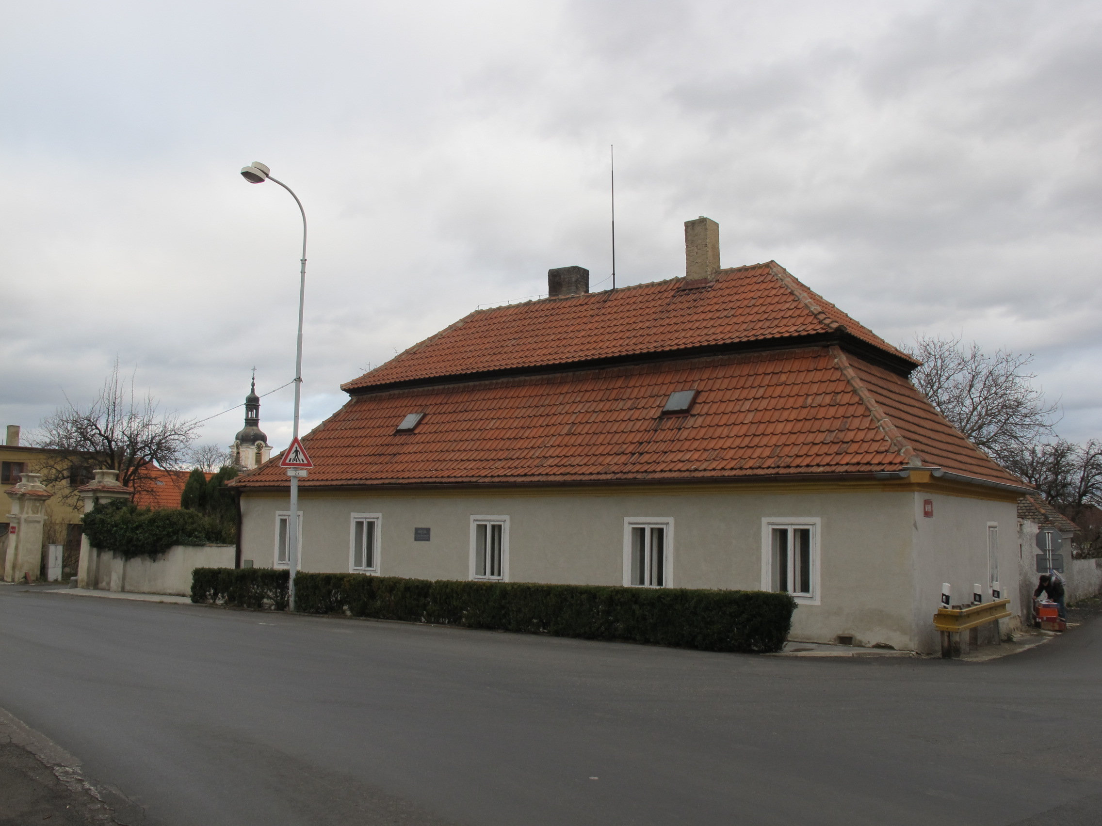 The birth house of Edmund Kaizl in Cítoliby (Czech Republic)